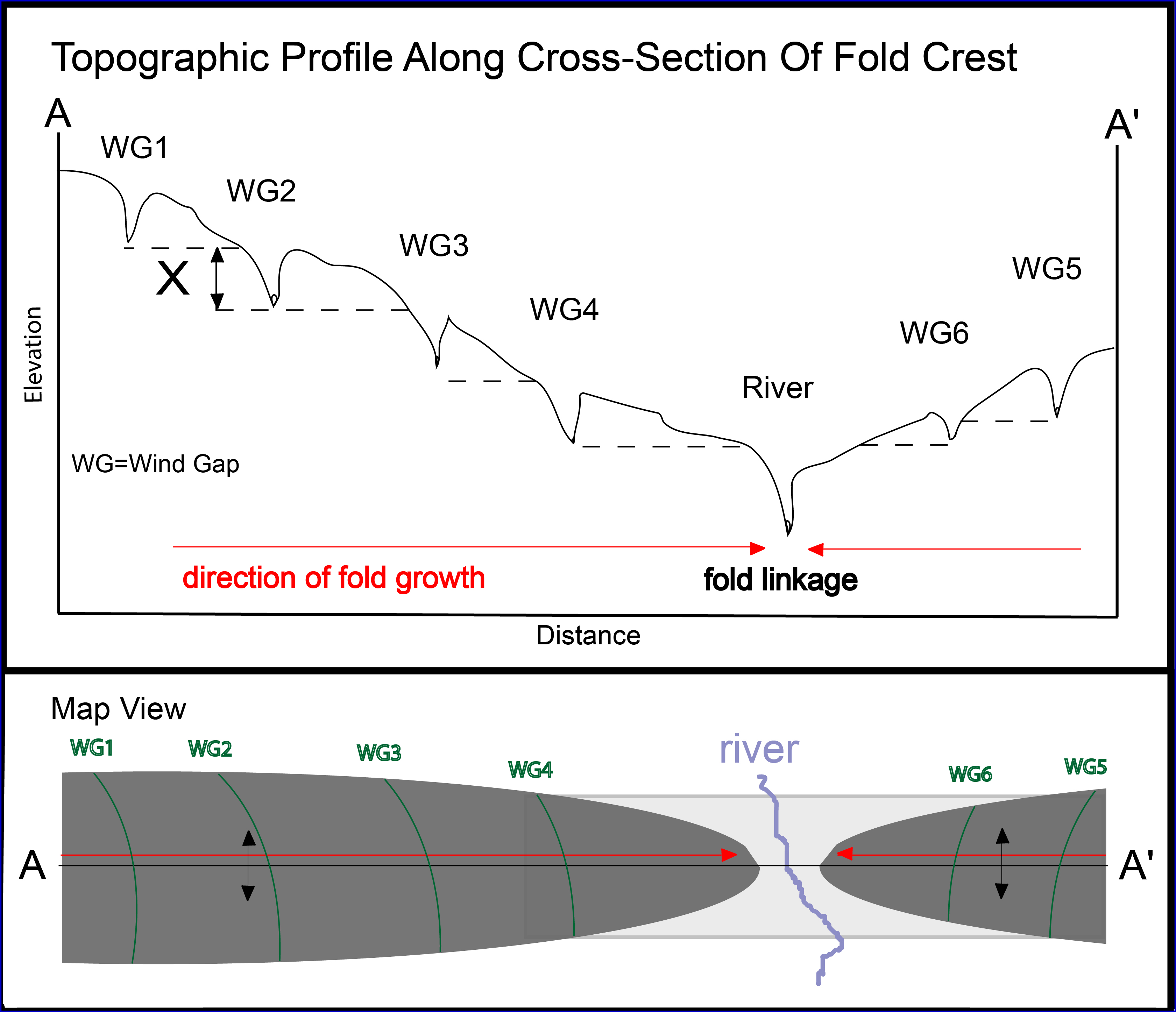 Diagrams showing decreasing wind gap elevation along direction of lateral fold growth